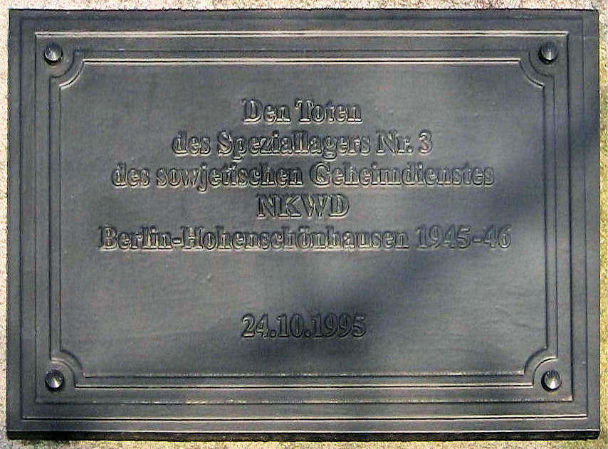 Memorial plaque, Speziallager 3, Ferdinand-Schultze-Straße 125, Berlin-Alt-Hohenschönhausen, Germany Koordinate:52°32′46″N 13°30′31″E / 52.54611°N 13.50861°E